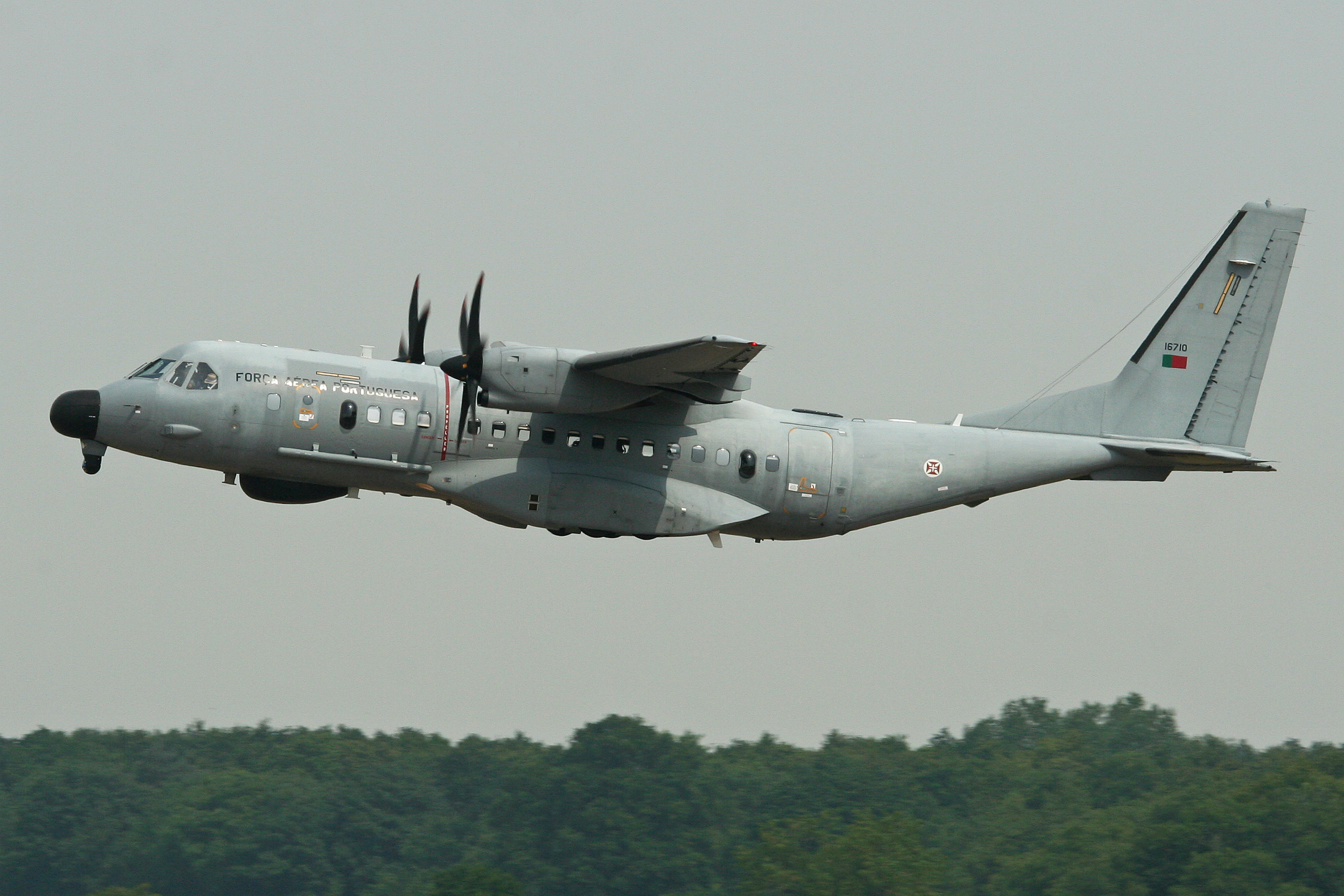 Operated by Esq502, Portuguese Air Force. c/n 063. Seen departing the 2013 RIAT at Fairford. 22-7-2013